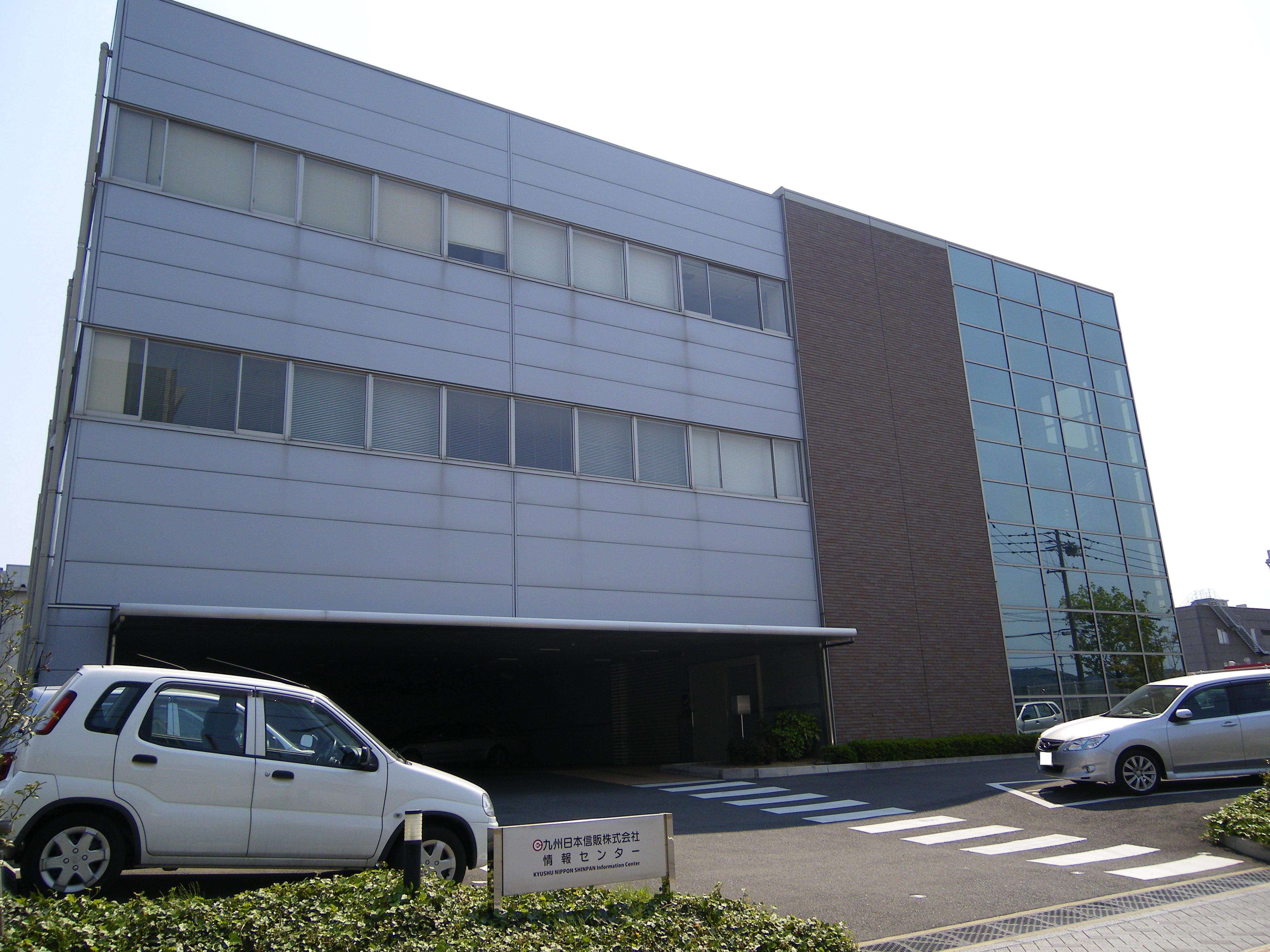 Kyusyu Nippon Shinpan Co.,ltd.